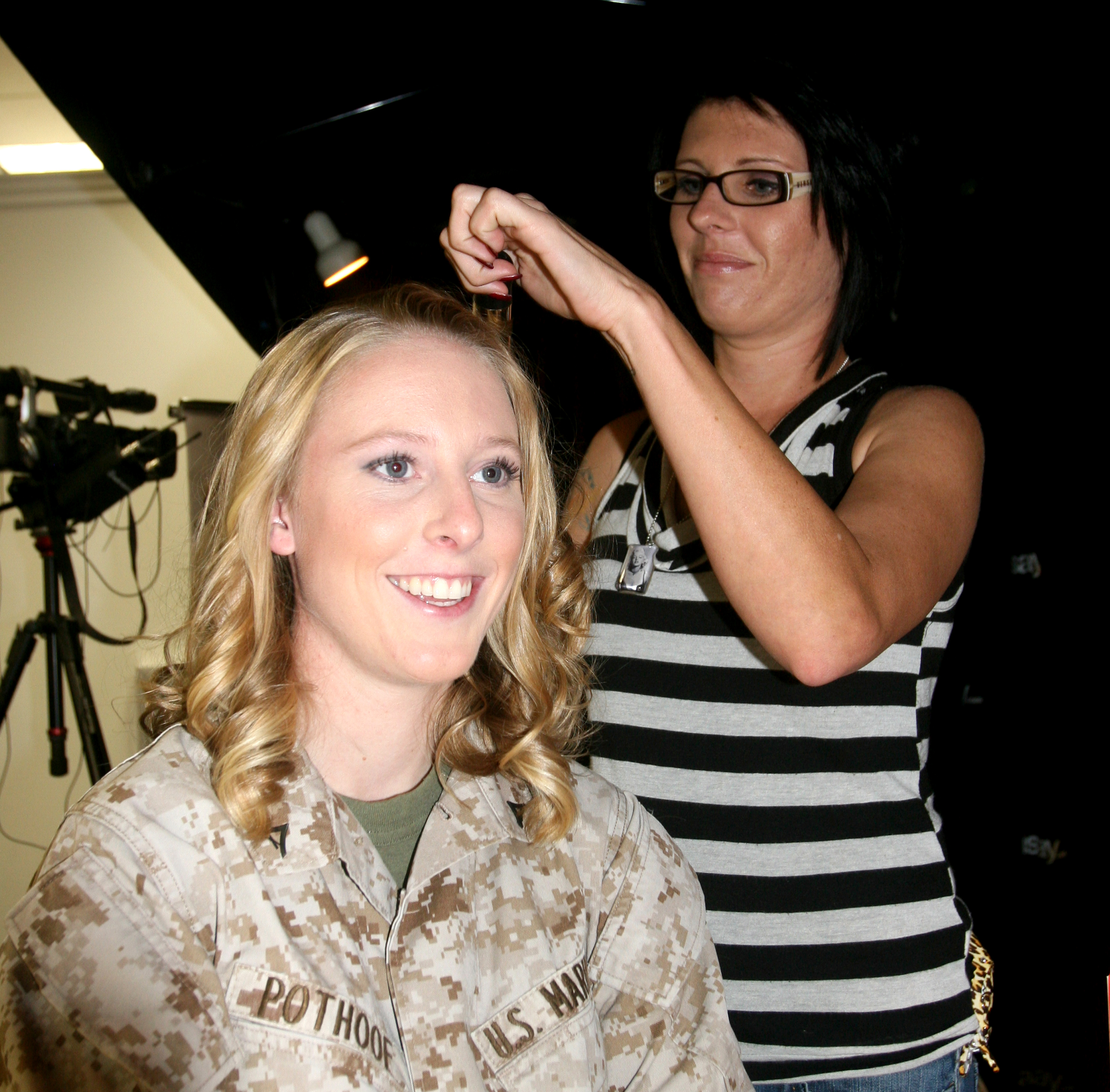 Nic Hike (right), a hair stylist for Styles and Files, a beauty salon in Jacksonville, N.C., curls the hair of Lance Cpl. Danielle N. Pothoof (left), from Bay City, Mich., a motor transportation operator with 2nd Marine Logistics Group, during a makeover Nov. 2, 2011, aboard Camp Lejeune, N.C. Marine Corps Community Services and 2nd Marine Expeditionary Force command chose wounded warriors for makeovers as part of the Marine Corps Exchange grand opening celebration. (Photo by Cpl. Bruno J. Bego)